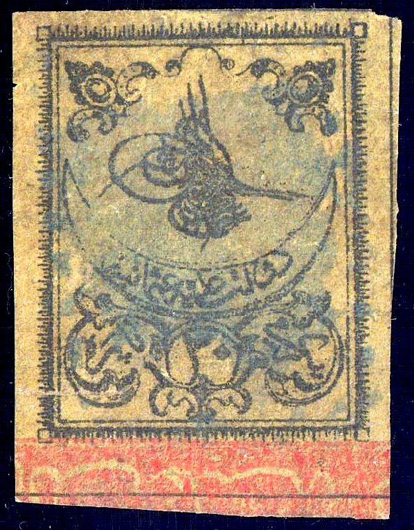 Turkey 1863, 20 paras used. Catalogue: Sc.1, Mi. 1IIxb